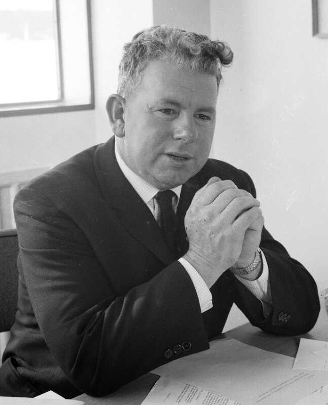 Photograph of Godfrey Bowen upon his return from the Soviet Union, taken ca 10 August 1963 by an unidentified Evening Post staff photographer. Bowen is wearing a suit and is sitting at a table with his hands clasped in front of him.